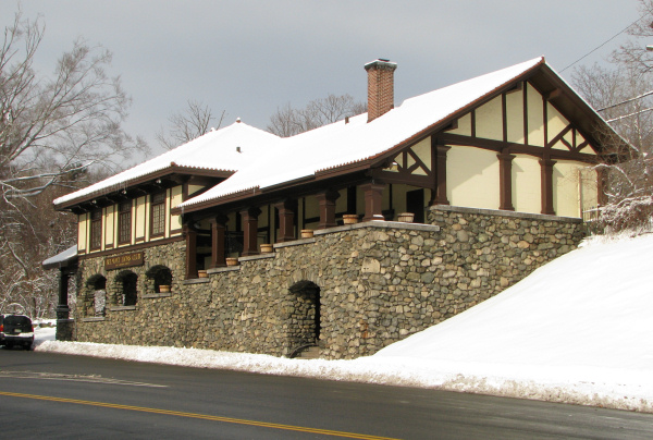 Train station at Belmont Center, Massachusetts